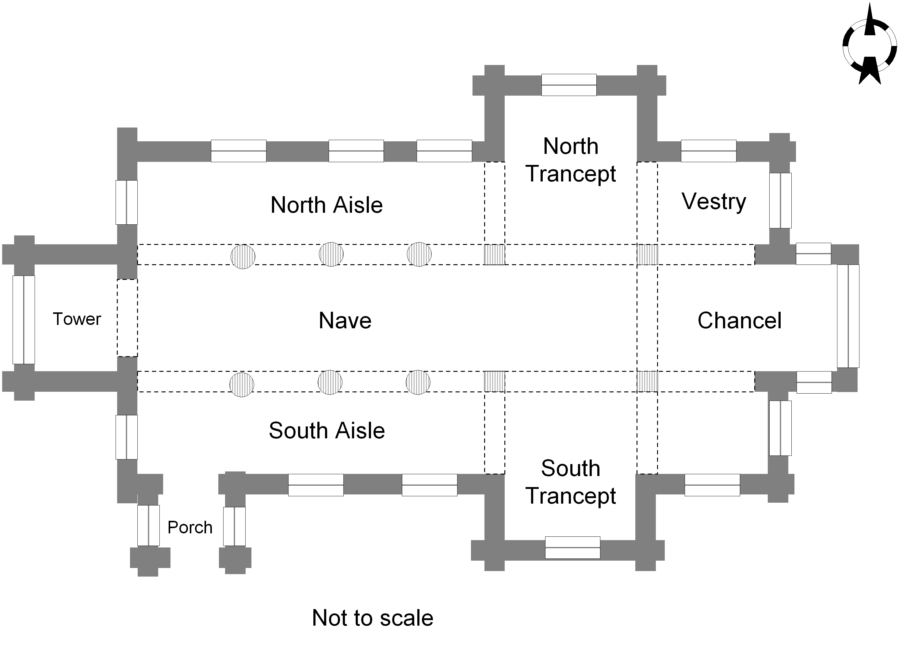 Not to scale plan drawing of St James' Church, Stretham, Cambridgeshire, based on the groundplan by James Piers St Aubyn (1815–95) of London and R.B. Pugh's The Victoria History of the Counties of England: Cambridge and the isle of Ely